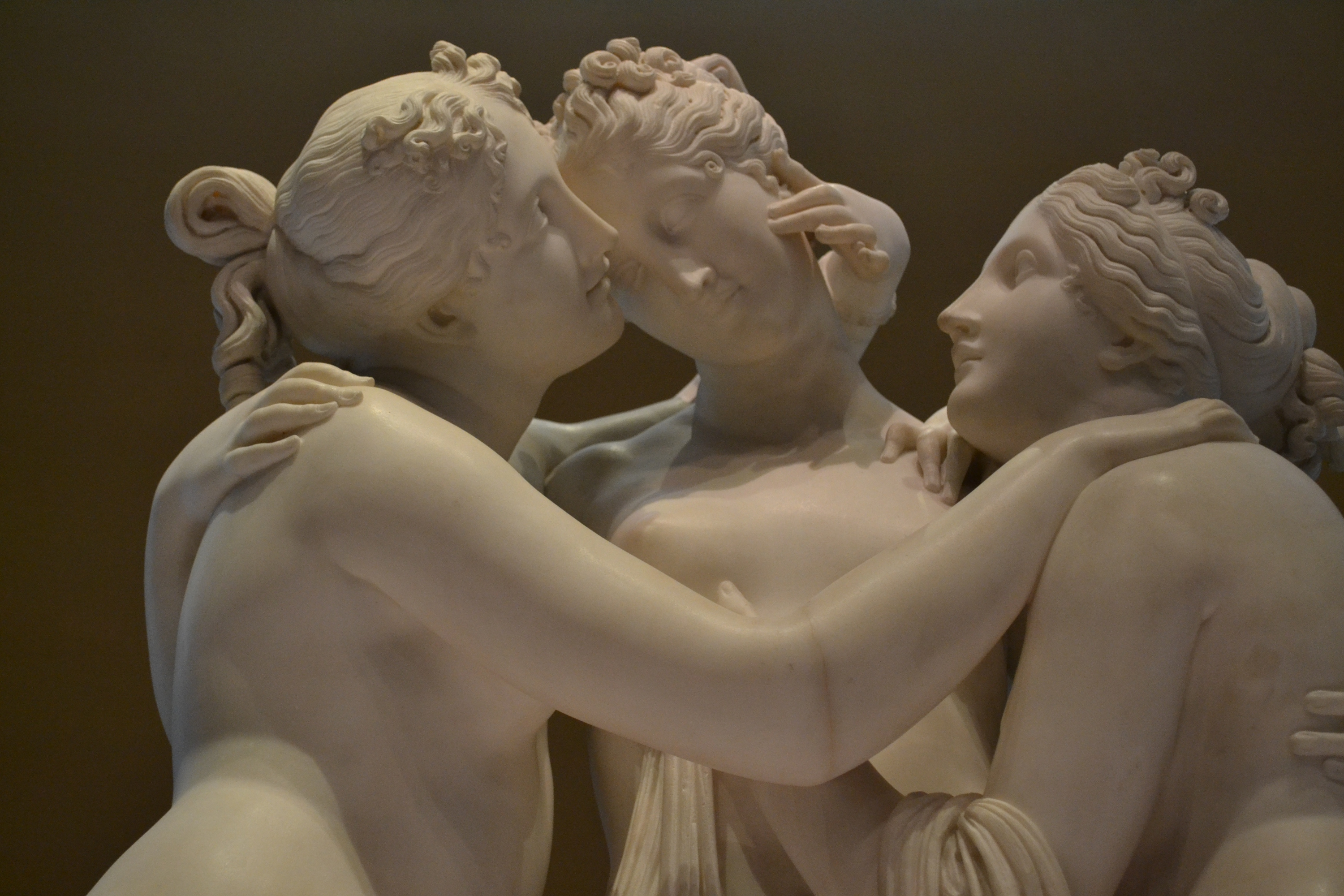 Antonio Canova (1757-1822) - The Three Graces, Woburn Abbey version (1814-1817) detail of Euphrosyne, Aglaea and Thalia's faces, Victoria and Albert Museum, July 2017